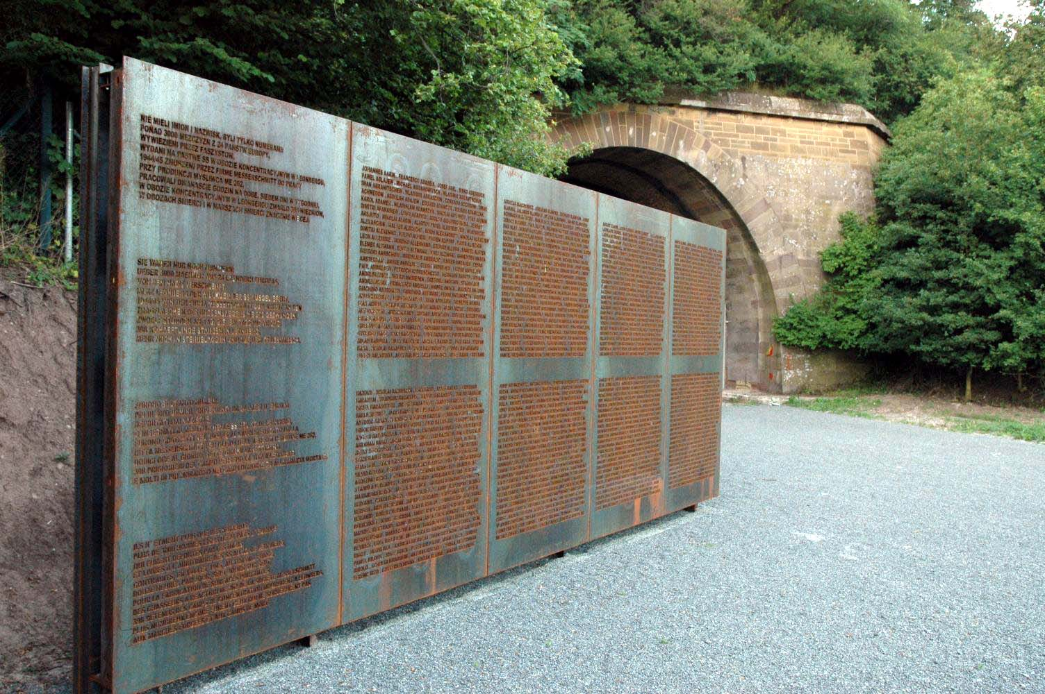 South-Western portal of the former Engelbergtunnel with a memorial reminding of the Konzentrationslager in Leonberg